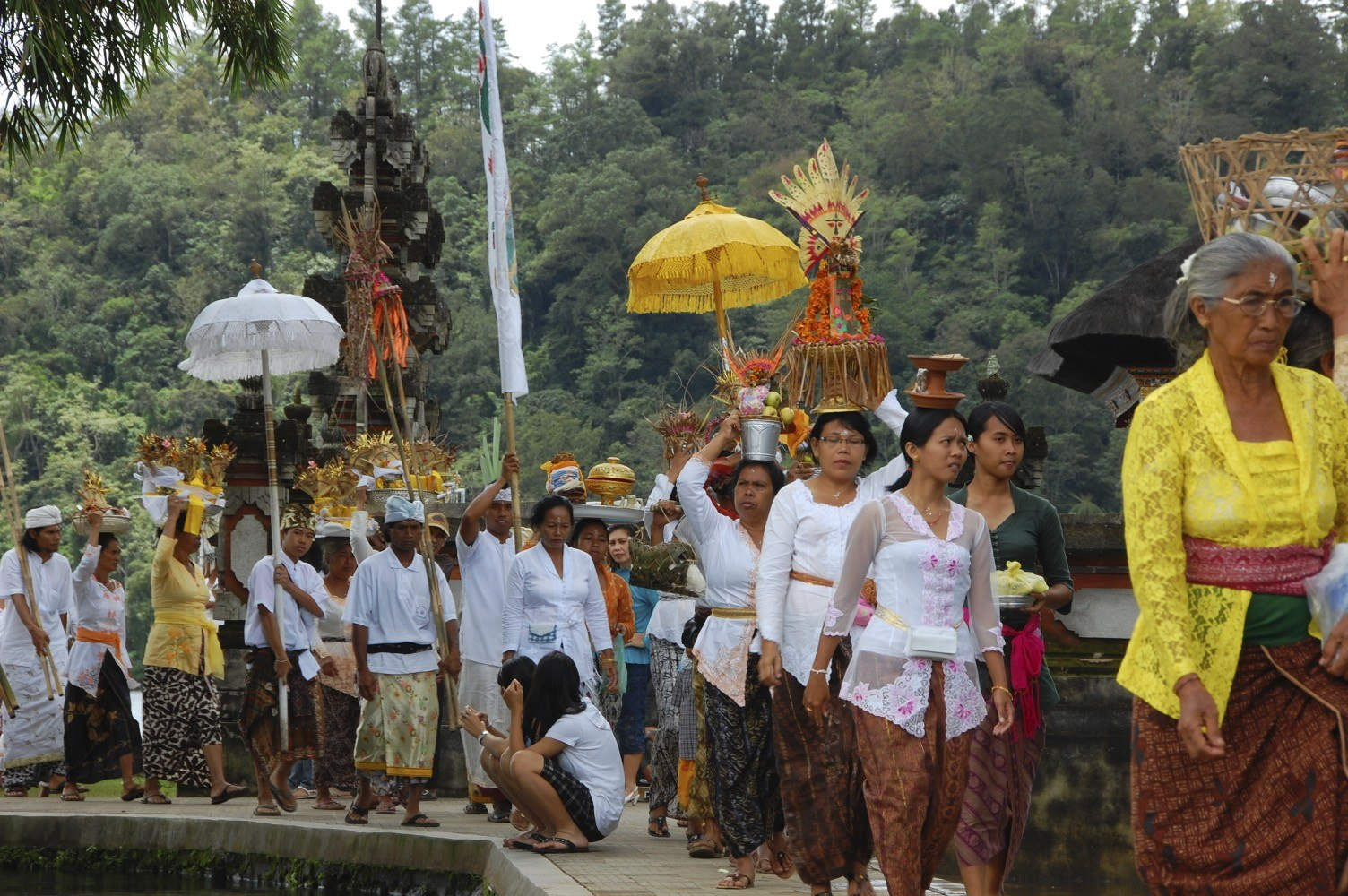 A Hindu procession during a ceremony entering temple gate (top left) and passing by a water structure towards the main temple.